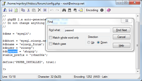 WinSCP 5.0.7 Internal editor window screenshot (Windows 7)